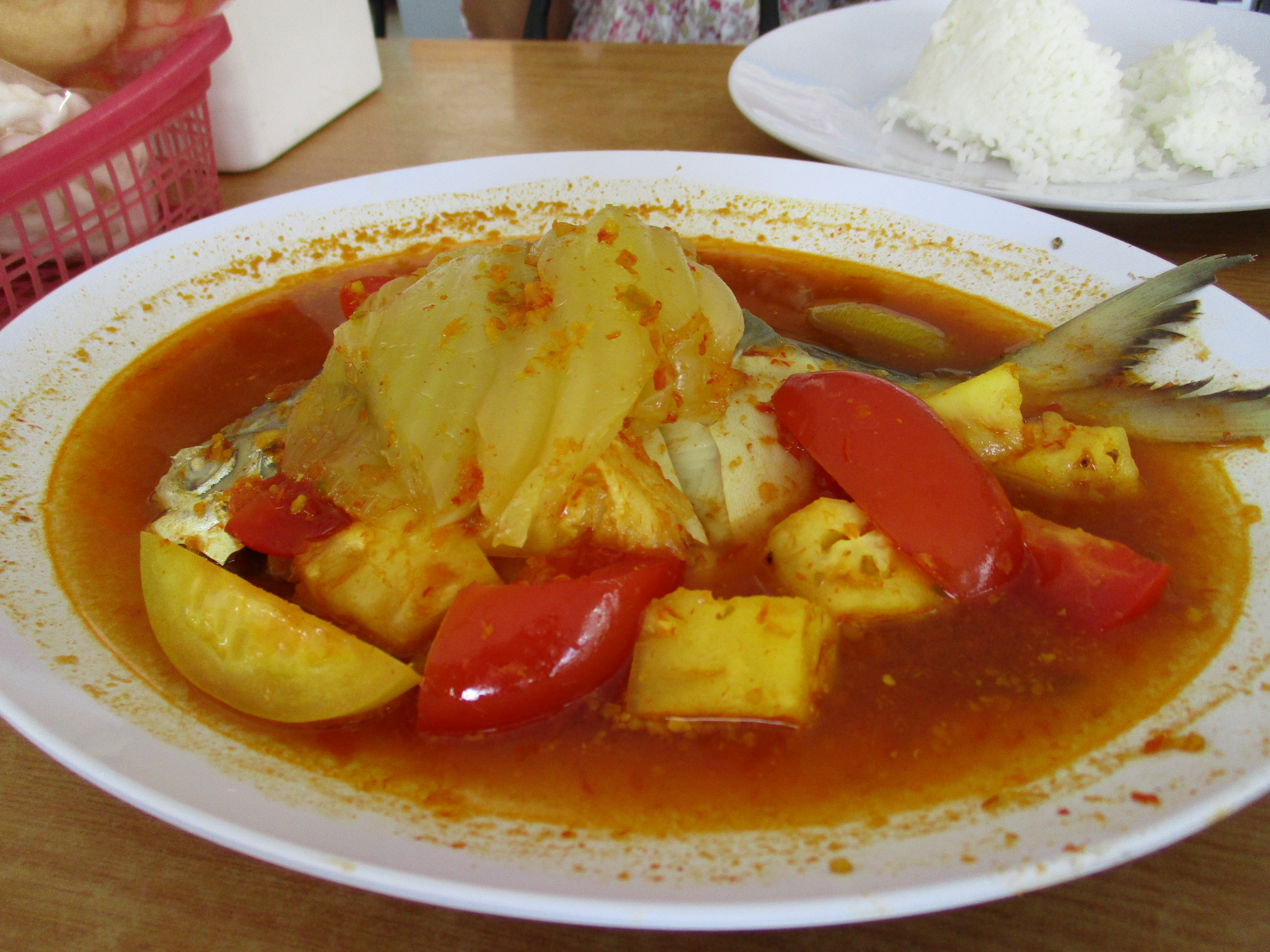 Spicy Sour Snappers Soup, authentic cuisine of Batam Island